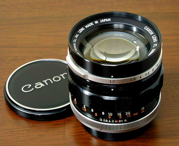 Canon lens FL 58mmF1.2